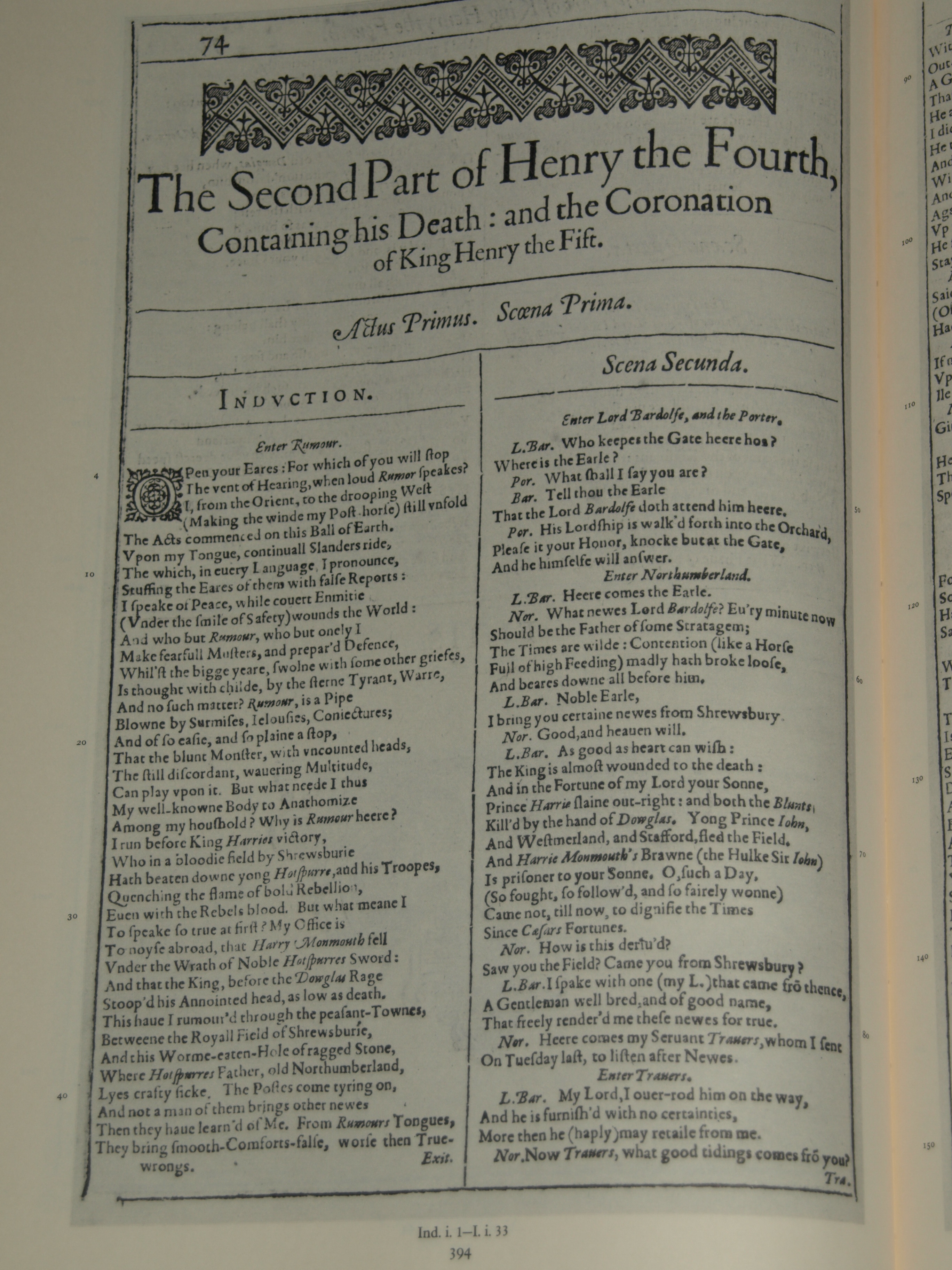 Photo of the first page of Henry the Fourth, Part Two from a facsimile edition of the First Folio of Shakespeare's plays, published in 1623